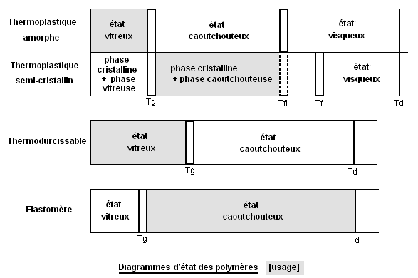 state diagrams of polymers